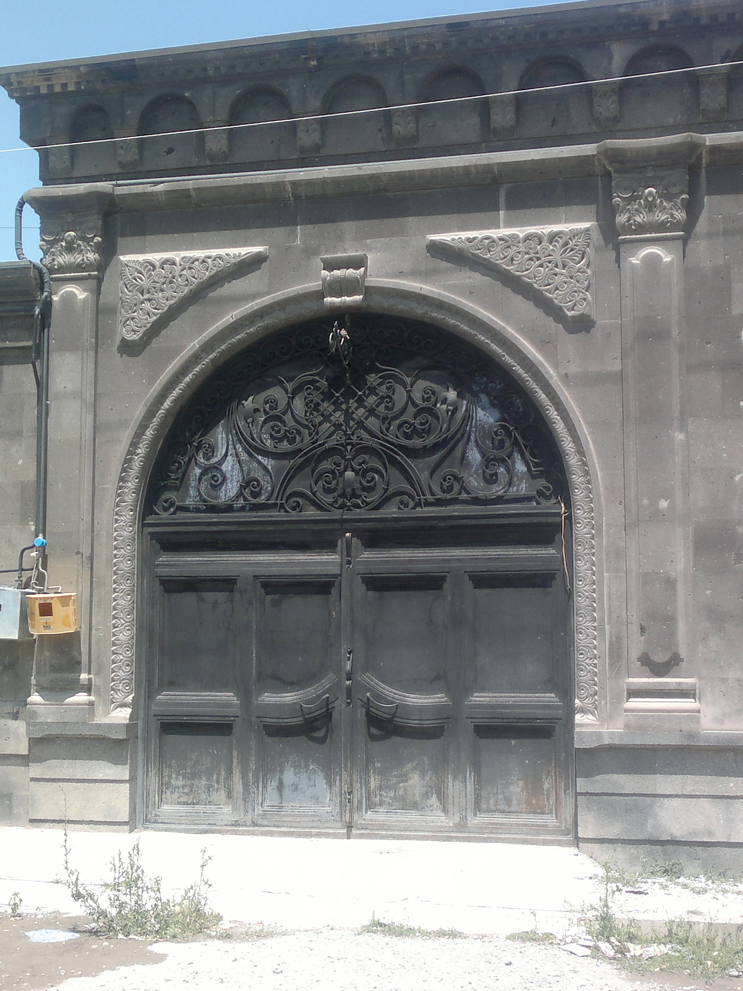 Gate in Gyumri